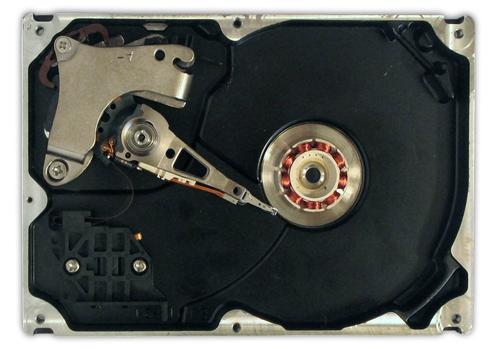 A dismantled 10GB Quantum Fireball hard drive Photograph: ed g2s • talk